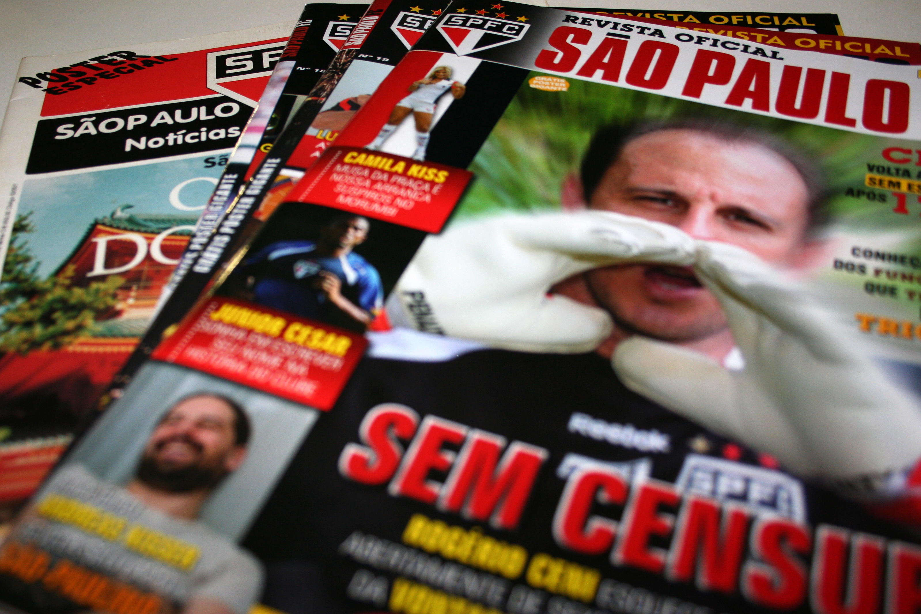 official magazines of São Paulo Futebol Clube.